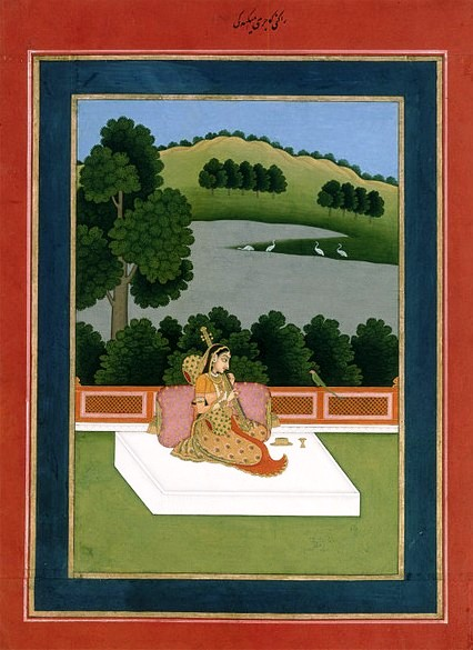 A young woman playing a rudra veena to a parakeet, a symbol of her absent lover. Gouache on paper painting made in Murshidabad in the provincial Mughal style of Bengal. Inscription reads "'Ragini Gujjari of Megha".